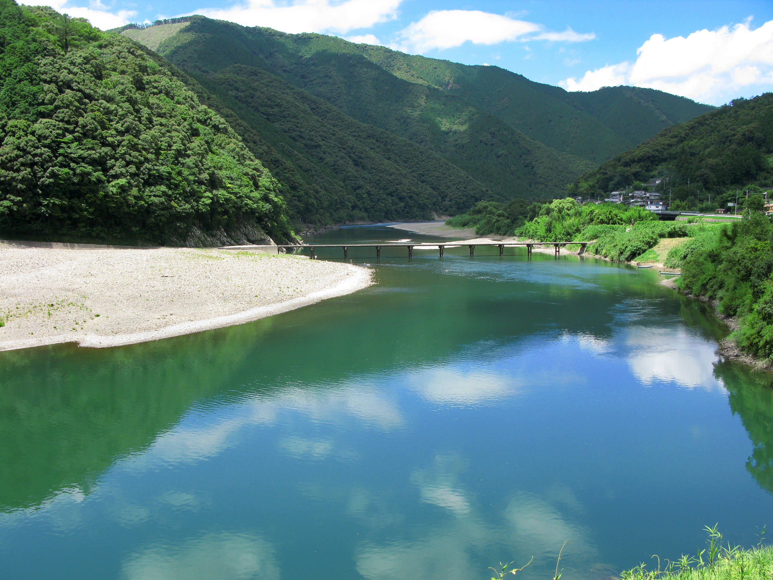 Shimanto River and Iwama Bridge (Shimanto, Kōchi)